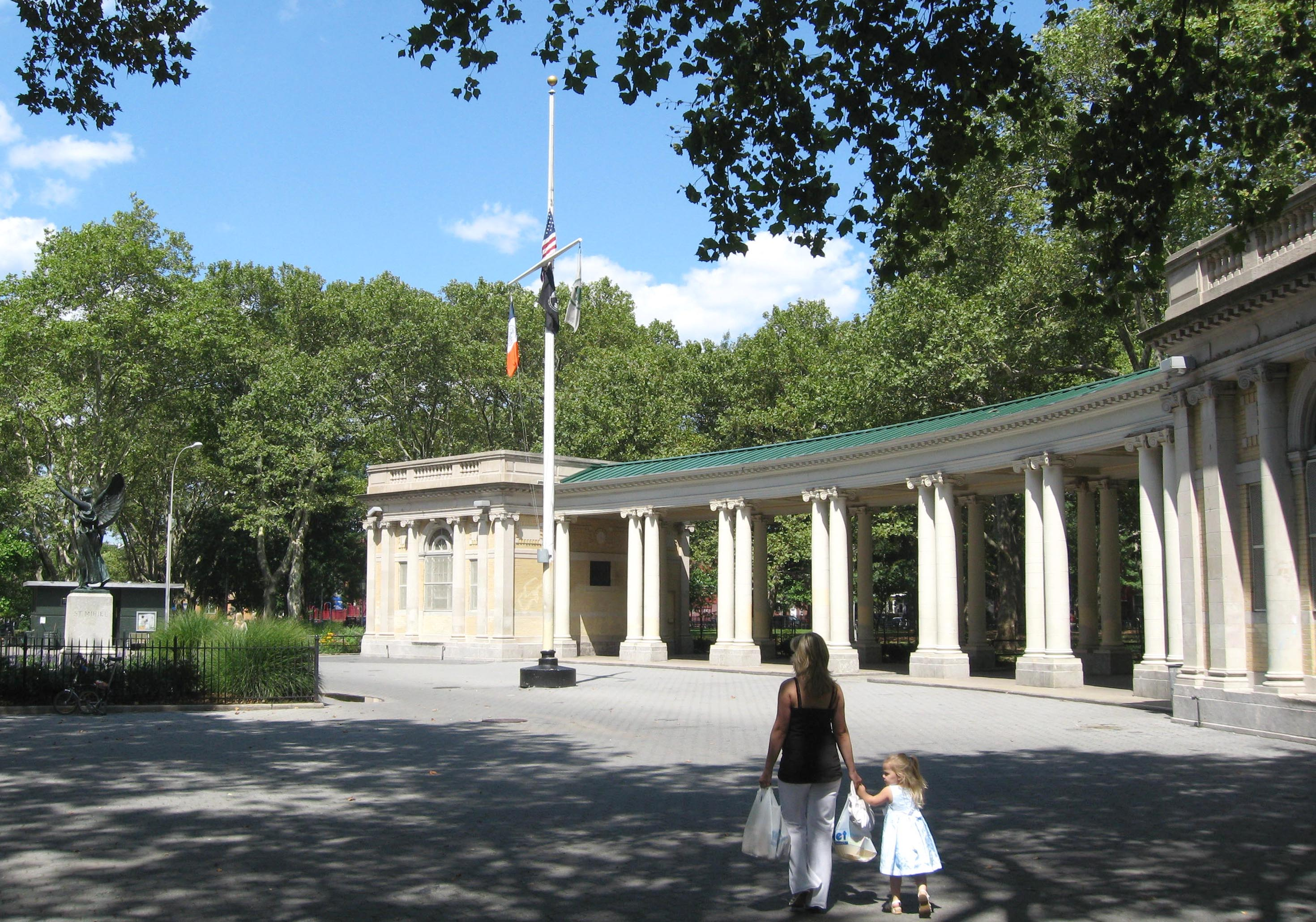 Looking northward in McGolrick Park at the Shelter Pavilion on a sunny midday. See also File:Winthrop Sh Pav North jeh.JPG